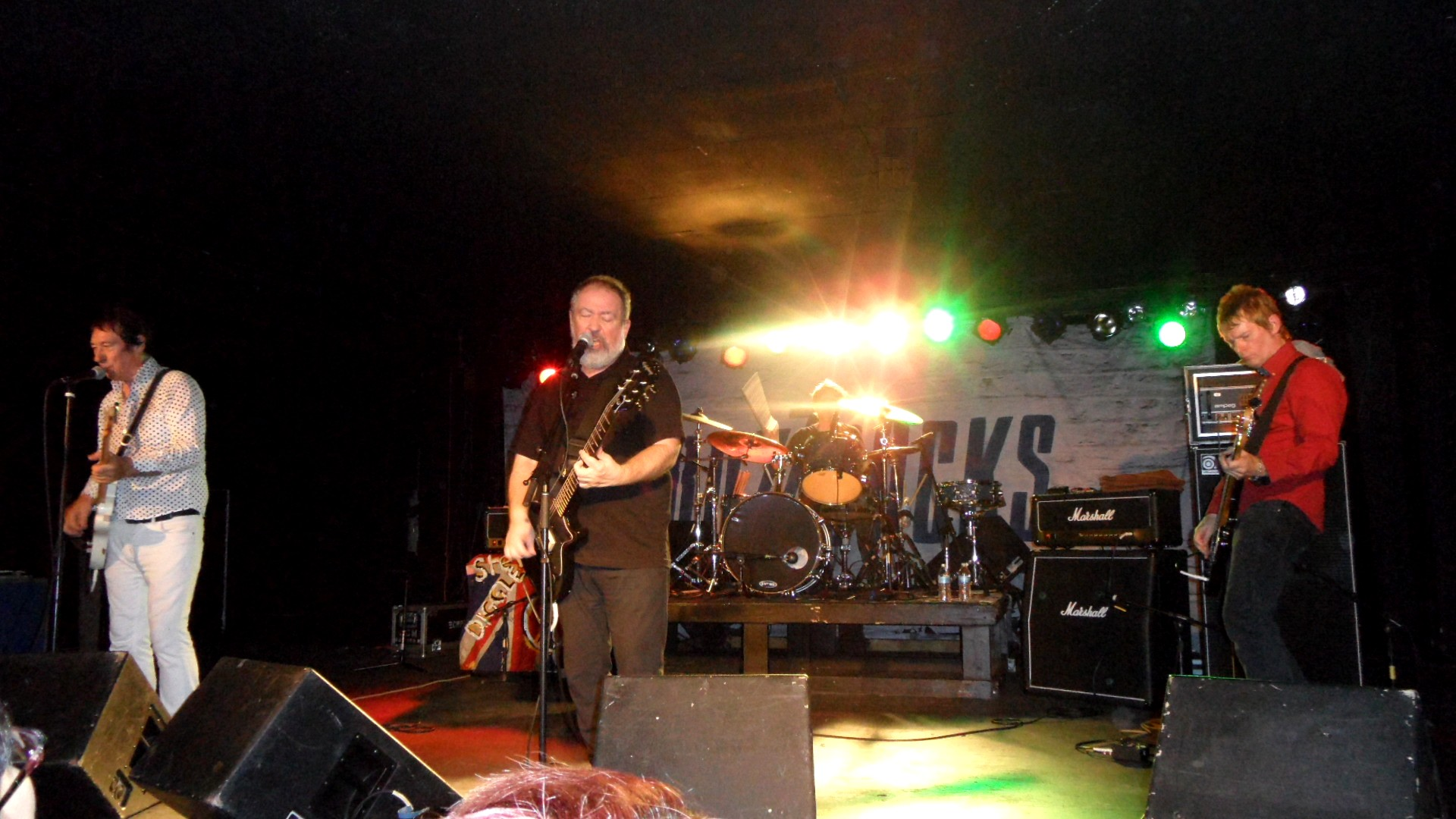 The Buzzcocks performing at the Rave/Eagles venue in Milwaukee, WI L-R:Steve Diggle, Pete Shelley, Danny Farrant, Chris Remmington